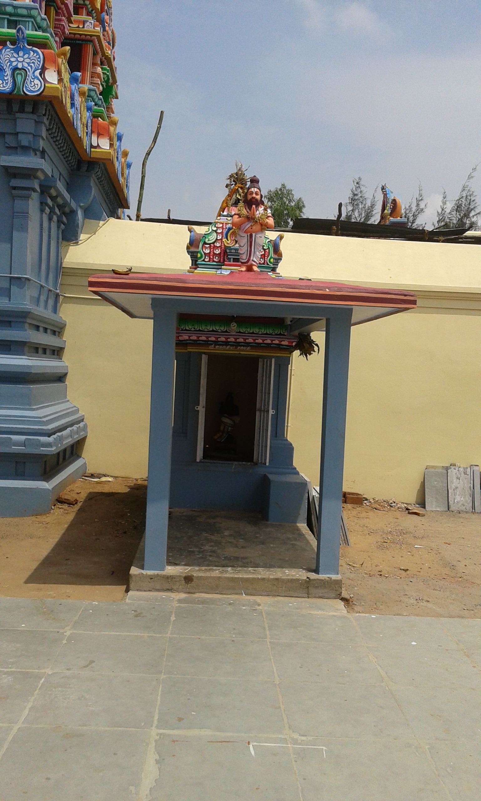 Thiruppaarththanpalli